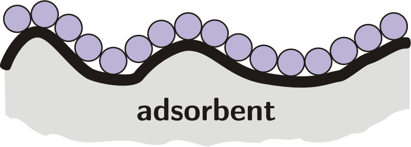 Langmuir isotherm; adsorption